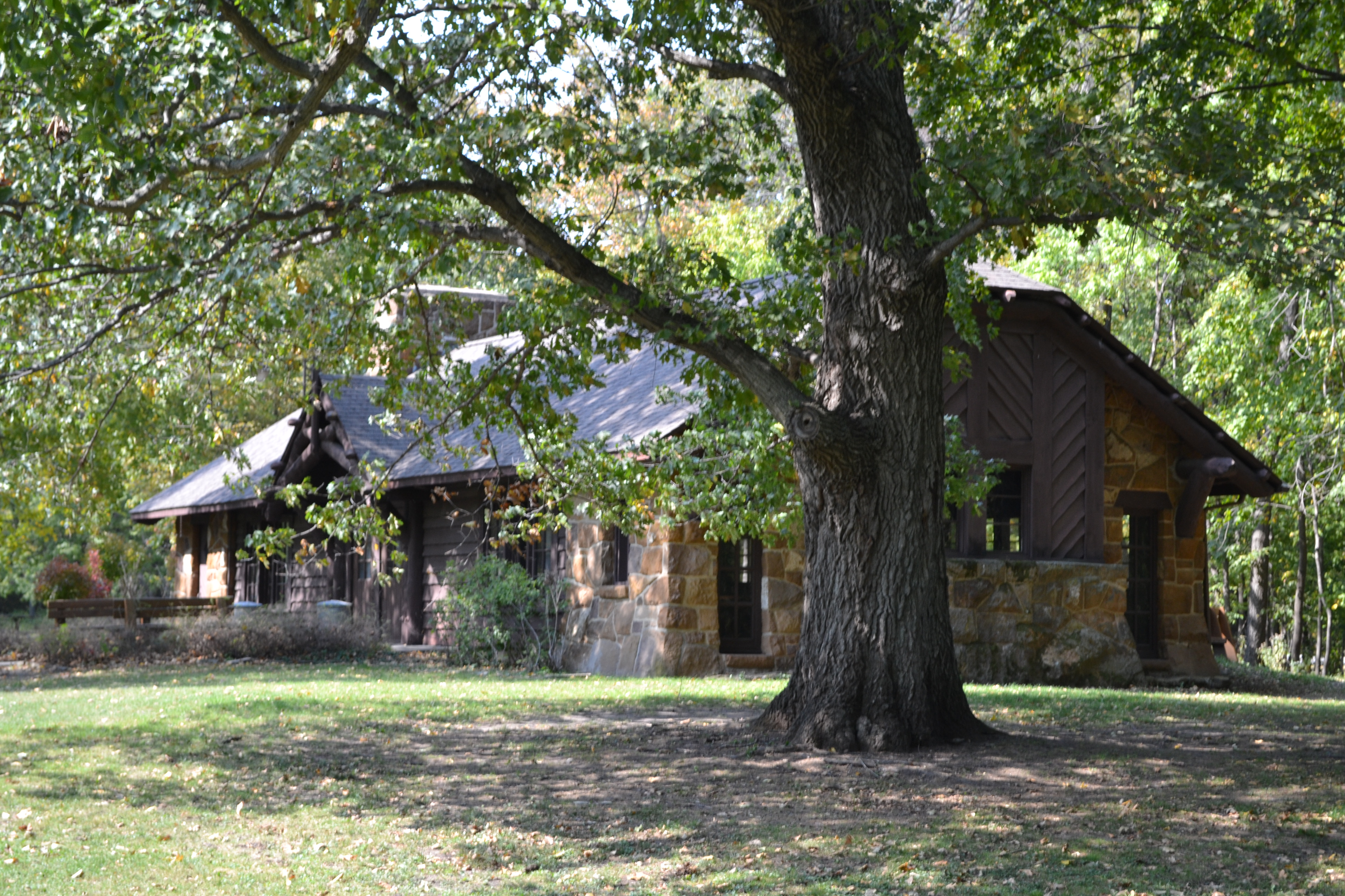 Dolliver Memorial State Park, Picnic, Hiking & Maintenance Area (Area B)